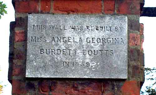 Plaque originally on the north wall of the Holly Lodge Estate Orchard, moved to entrance pillar to the upper Gardens by the Central London Building Company in 1925